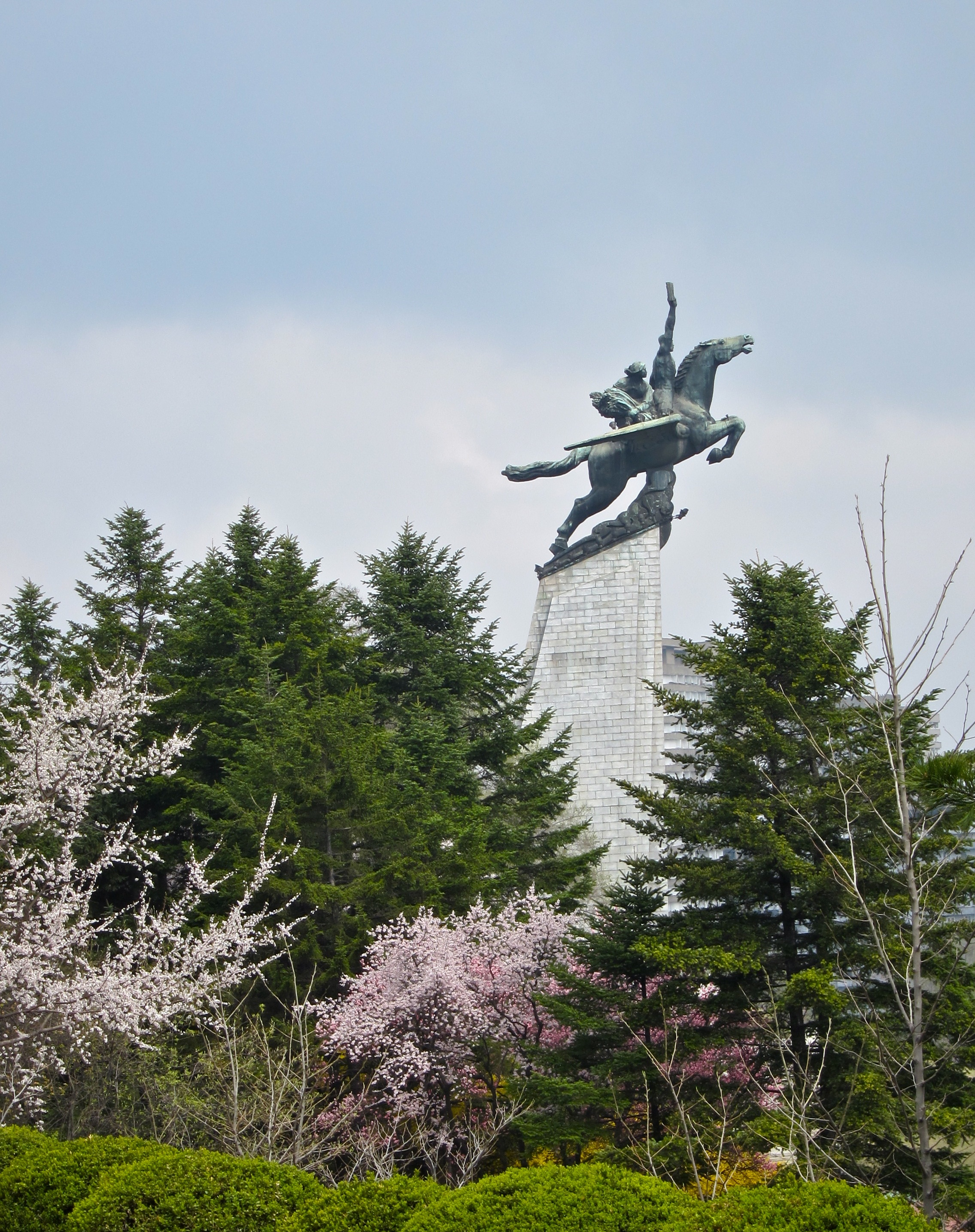 Chomilla statue in Pyongyang